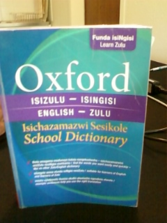 Isichazamazwi